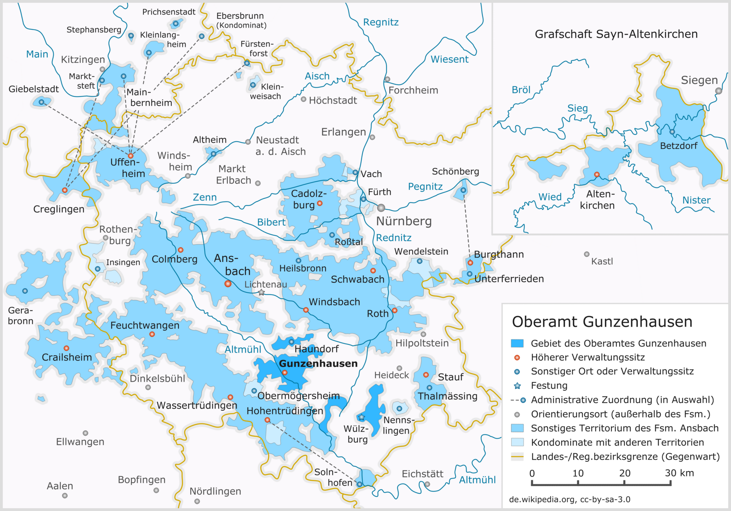 Map of the Oberamt Gunzenhausen